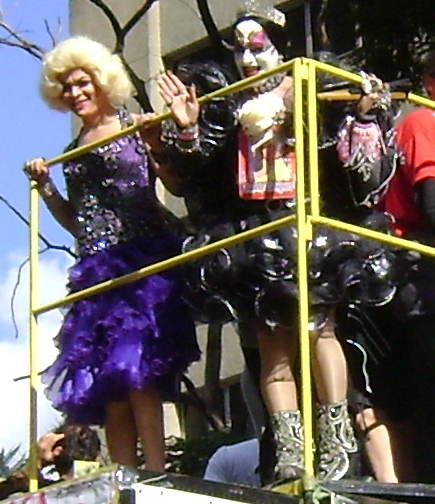 2009 Gay Pride in São Paulo